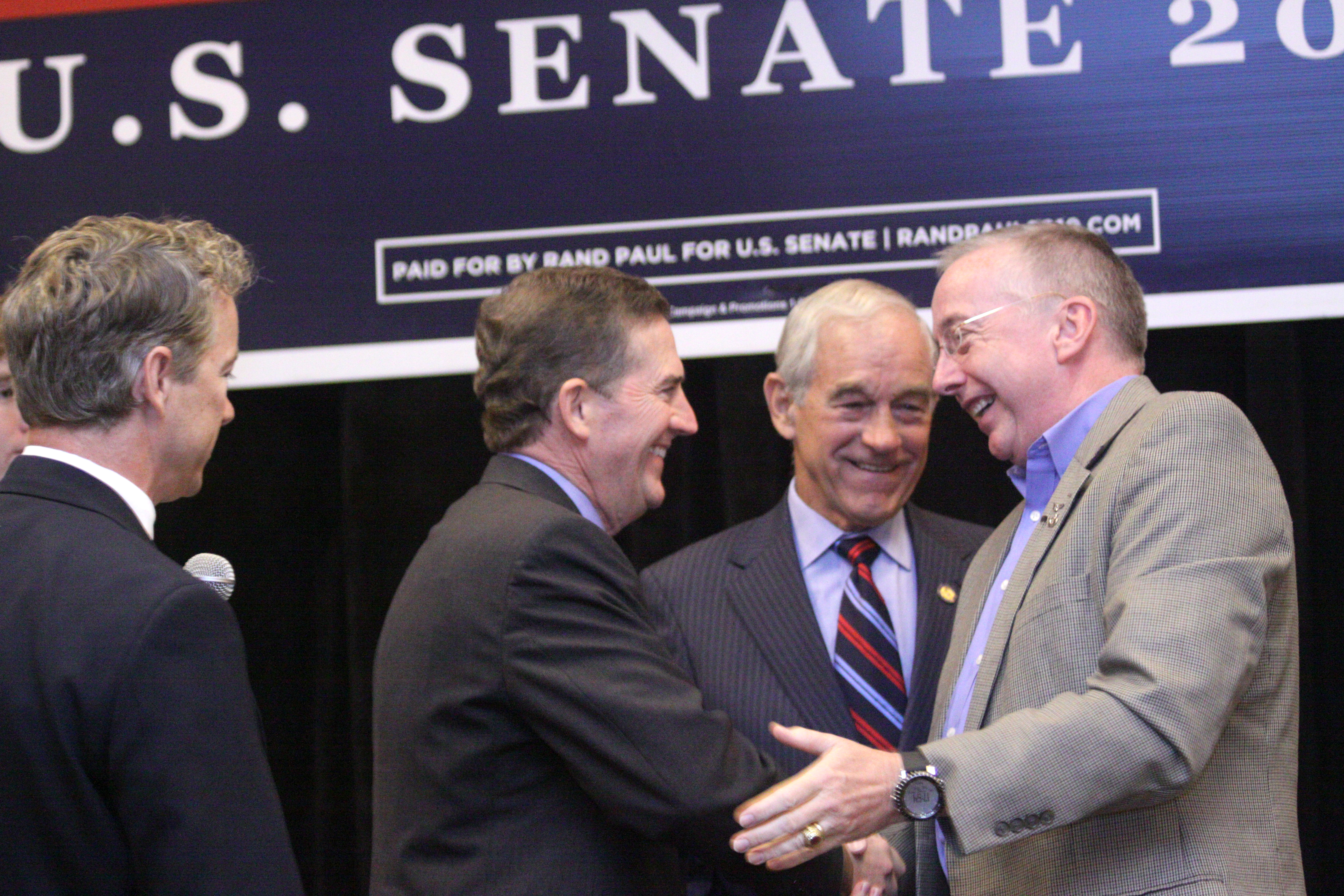 United States Senate candidate Rand Paul at a rally in Erlanger, Kentucky, along with his father, congressman Ron Paul, United States Senator Jim DeMint and congressman Geoff Davis. Unauthorized use by any candidate or candidate's committee is strictly prohibited without approval.